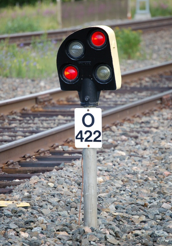 A Finnish railway dwarf/shunting signal at Muhos railway station. The signal is displaying "Stop".